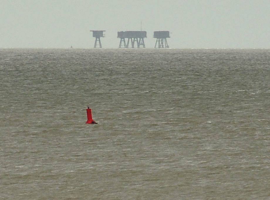 The Shivering Sands Army Fort in the Thames Estuary, seen from Whitstable